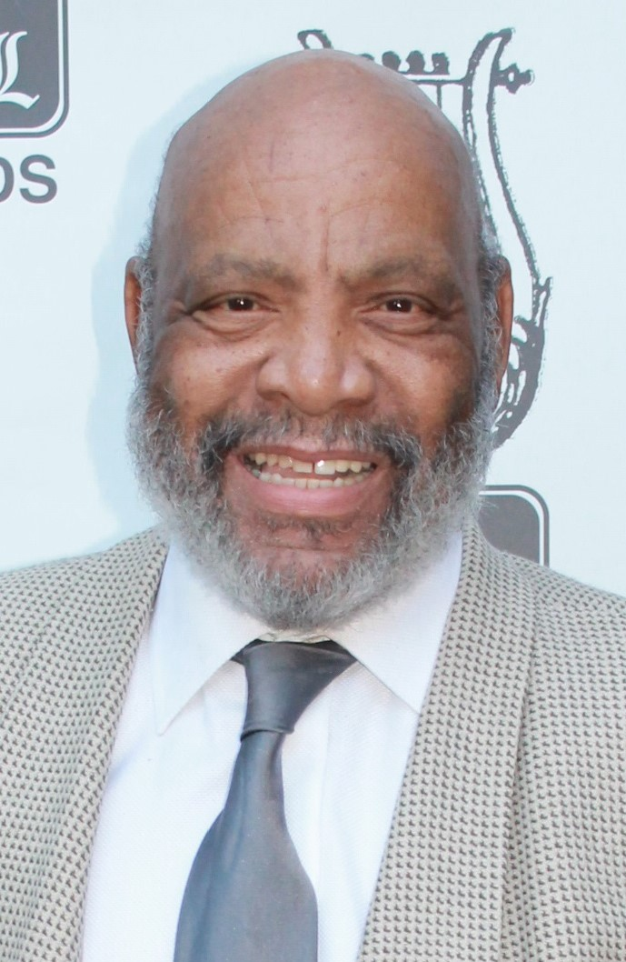 James Avery on the red carpet at the Heroes and Legends Awards in Beverly Hills, September 22nd 2013